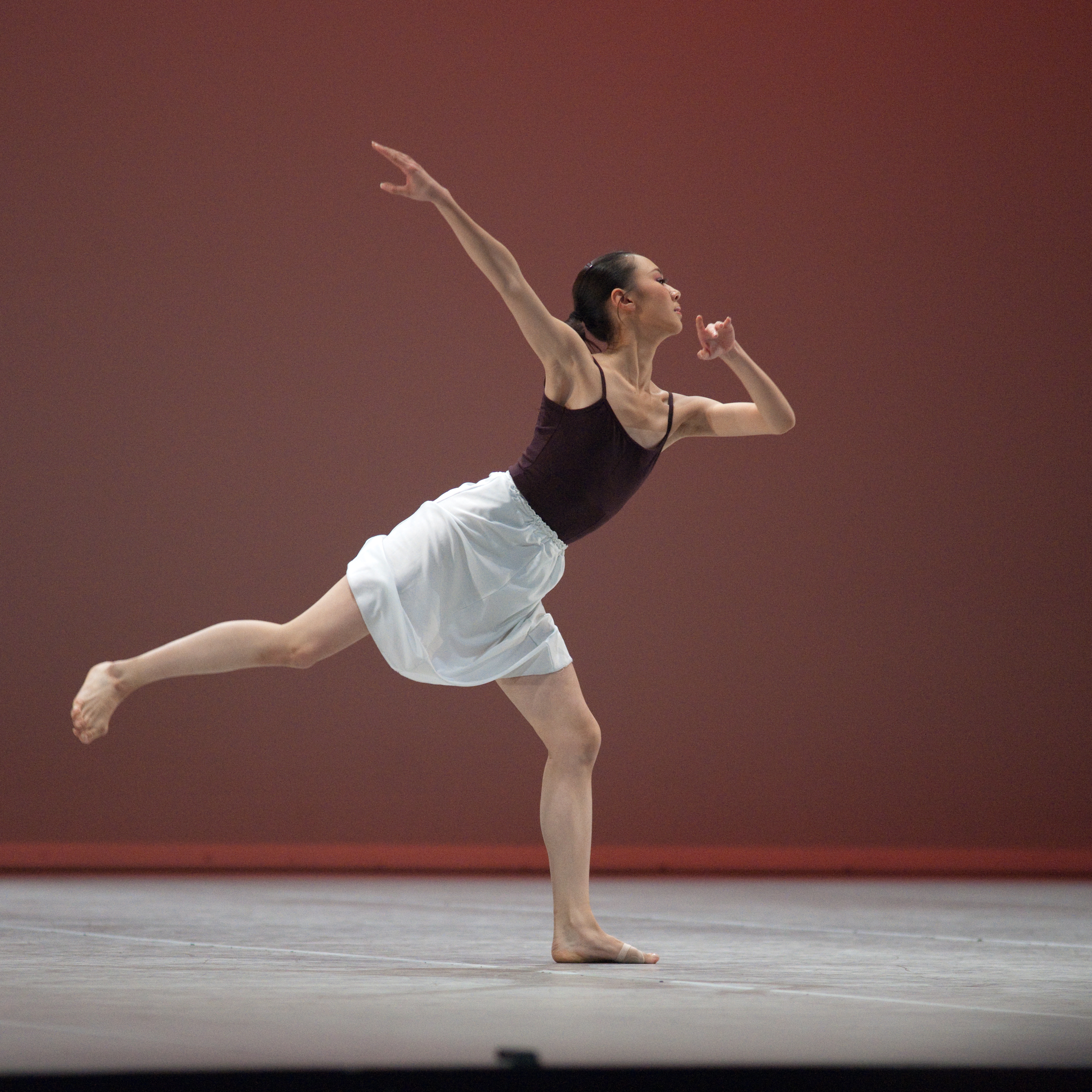 The making of this document was supported by Wikimedia CH. (Submit your project!) For all the files concerned, please see the category Supported by Wikimedia CH.